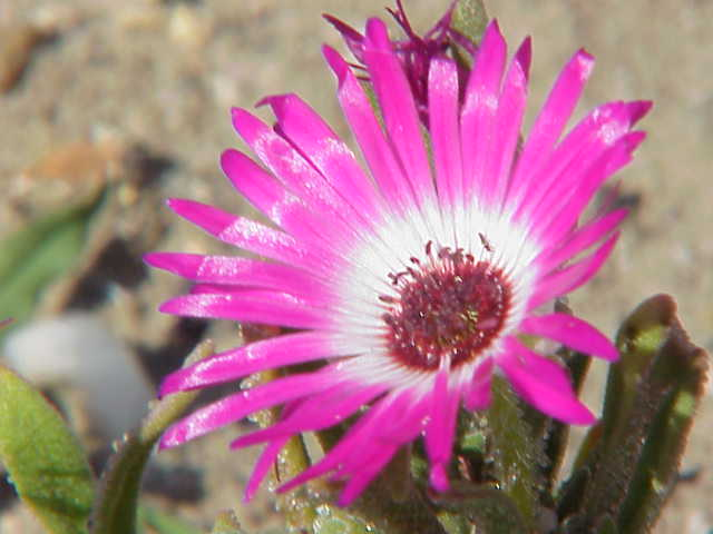 Species: Dorotheantus bellidiformis Family: Aizoaceae Image No. 1